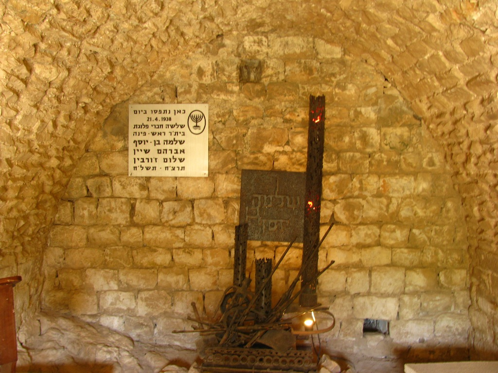 Cave of Yosef Ben Shlomo and his friends who were hiding in a cave